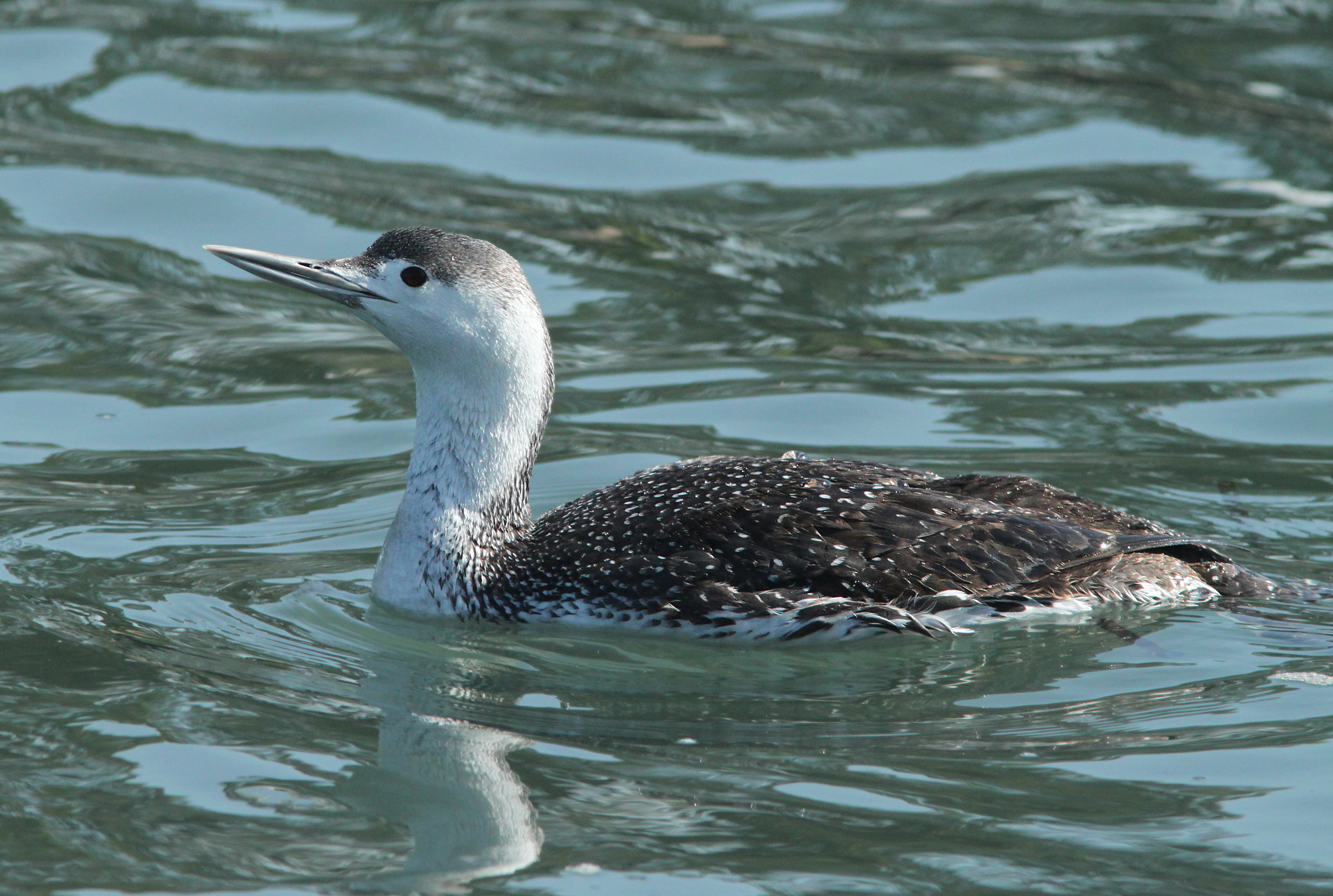 CALIFORNIA - BIRDS of San Luis Obispo Co